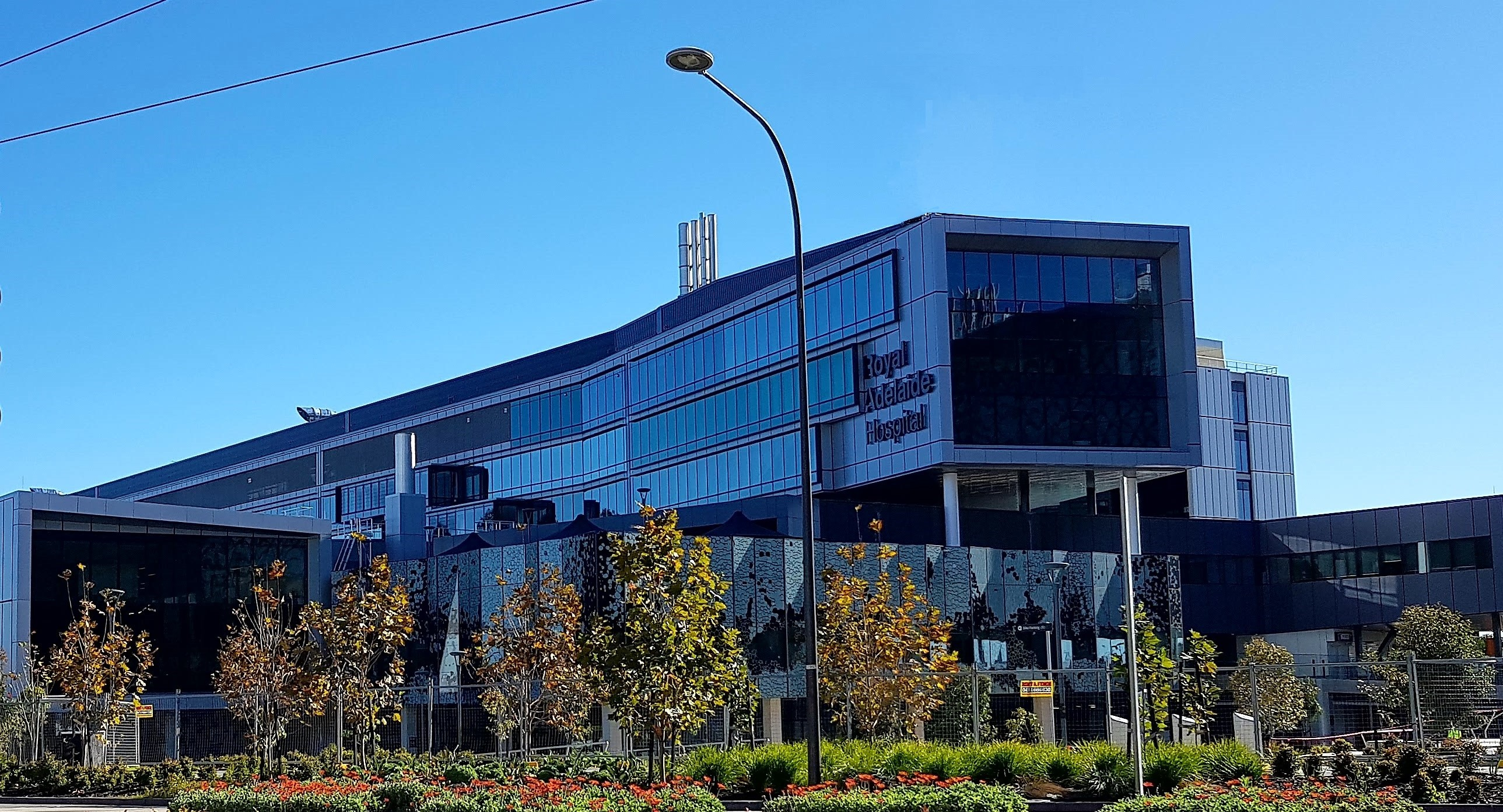 nRAH latest